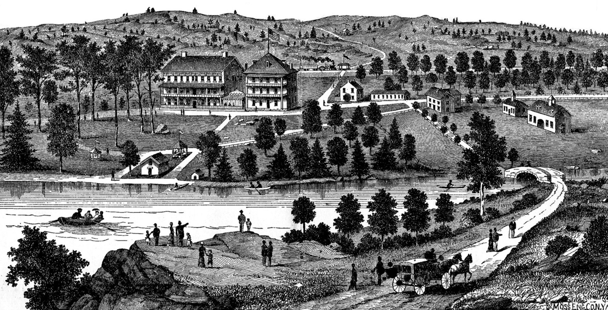 Cold Spring Resort in Cold Spring Township, Lebanon County, Pennsylvania, before 1900